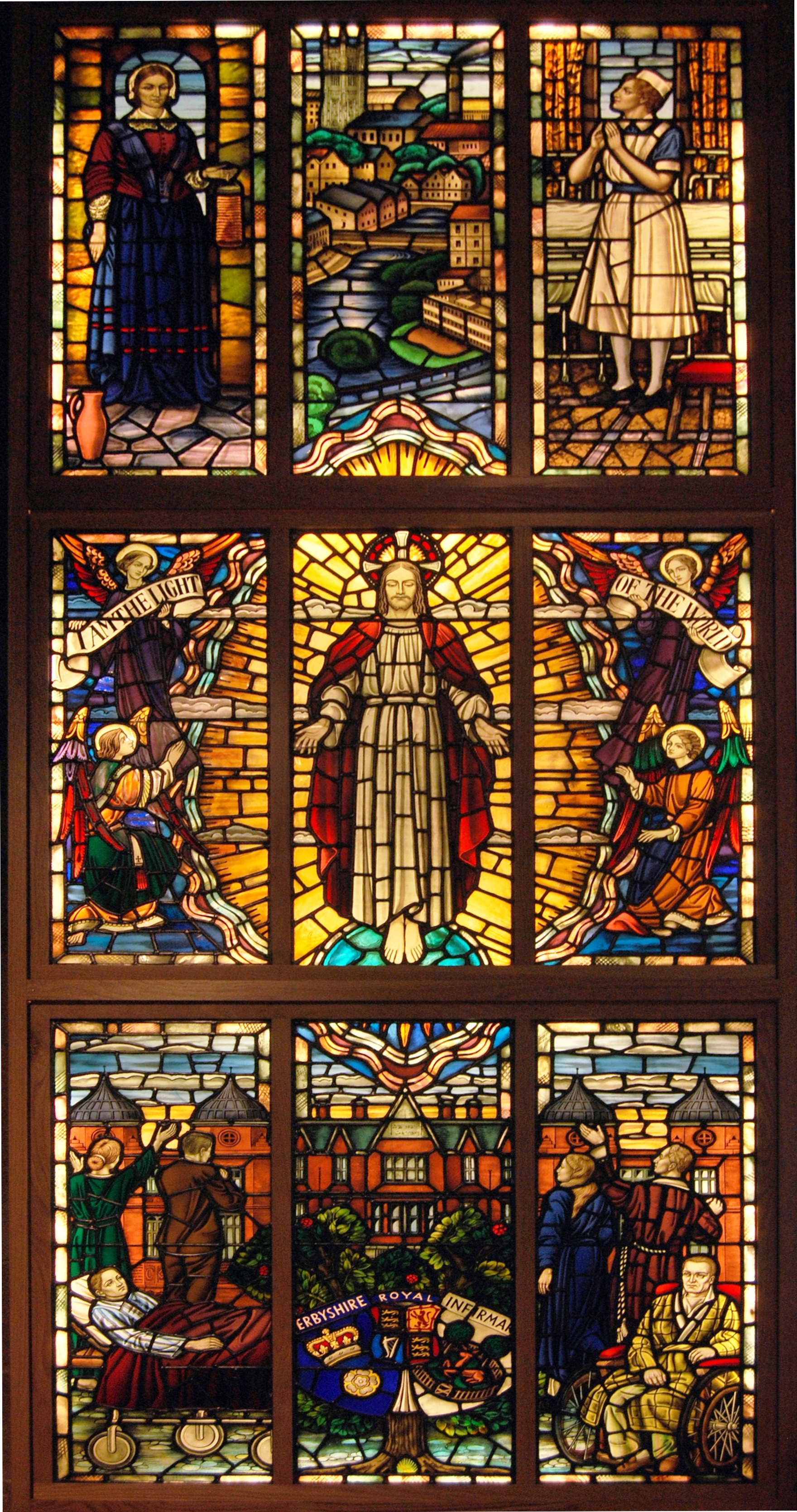 The Florence Nightingale stained glass window originally at the Derbyshire Royal Infirmary Chapel and now removed to St Peter's Church, Derby and rededicated October 9th 2010